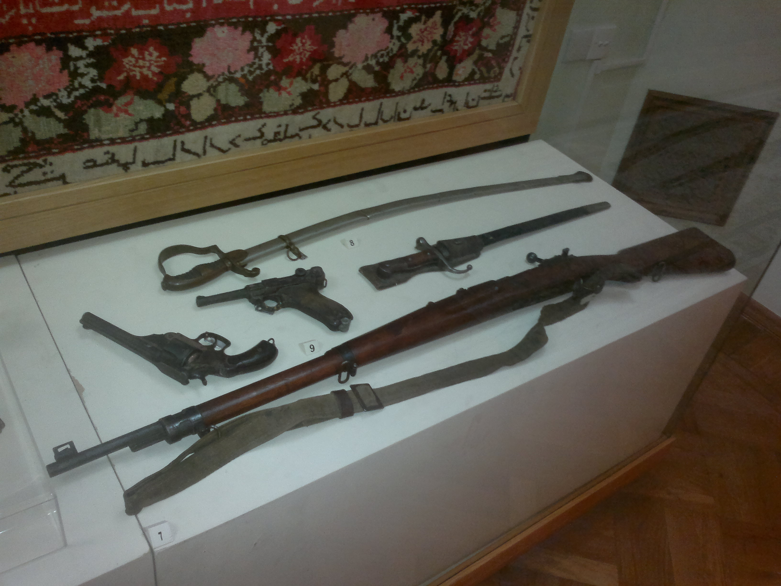 Weapons of Caucasian Islam Army in Museum of the History of Azerbaijan